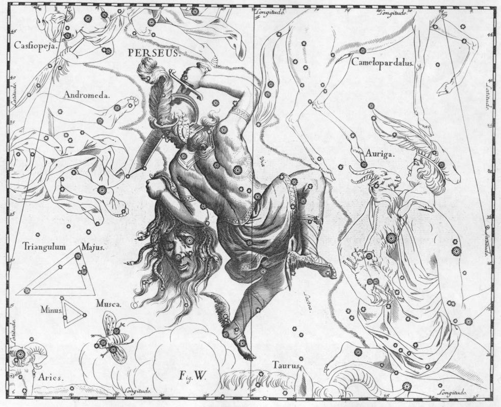 The Canes Venatici constellation from the Uranographia by Johannes Hevelius. The view is mirrored following the tradition of celestial globes, showing the celestial sphere in a view from the "outside".